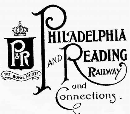 This is a logo for the Philadelphia and Reading Railway.